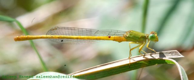 Unidentified damselfly, India